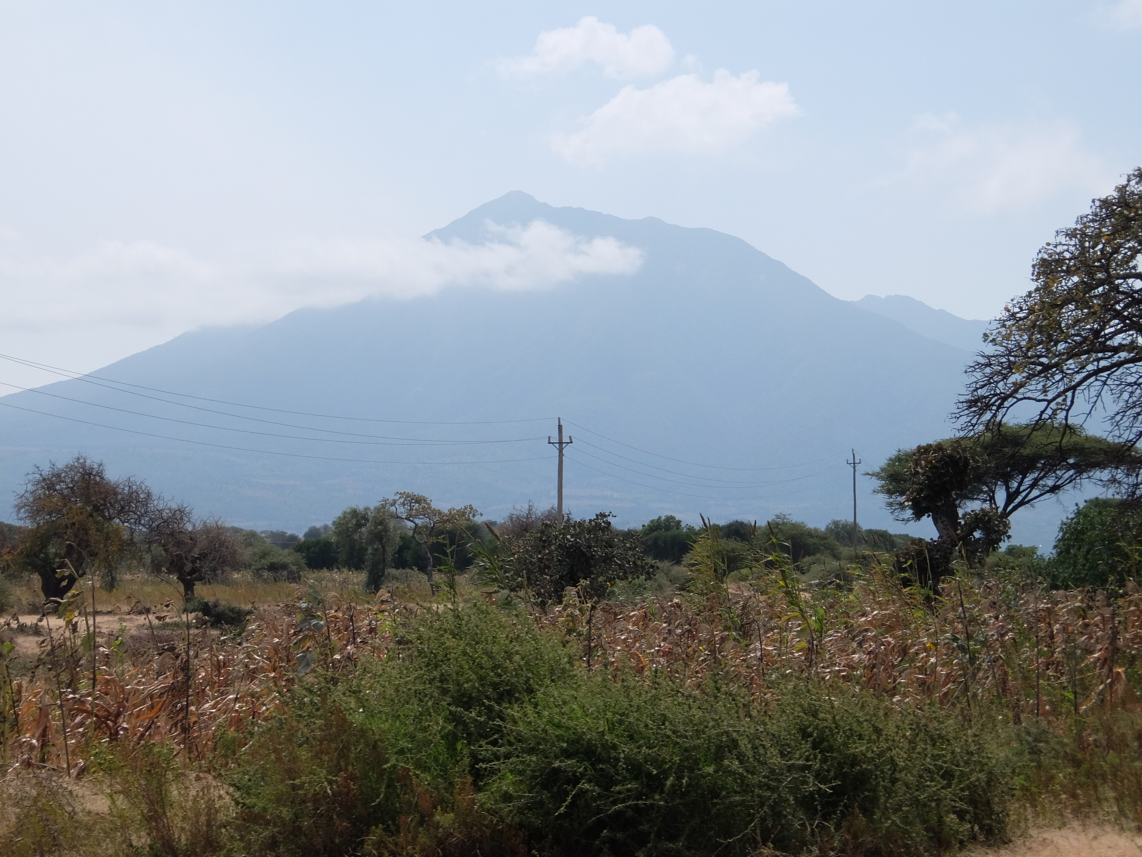 Mount Hanang as seen from the main road coming from Singida, approaching Katesh.